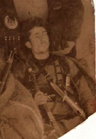 Georgi Miadzhira, Lopovo, January 1905. Crop from File:BASA-1782K-3-211-1.JPG.